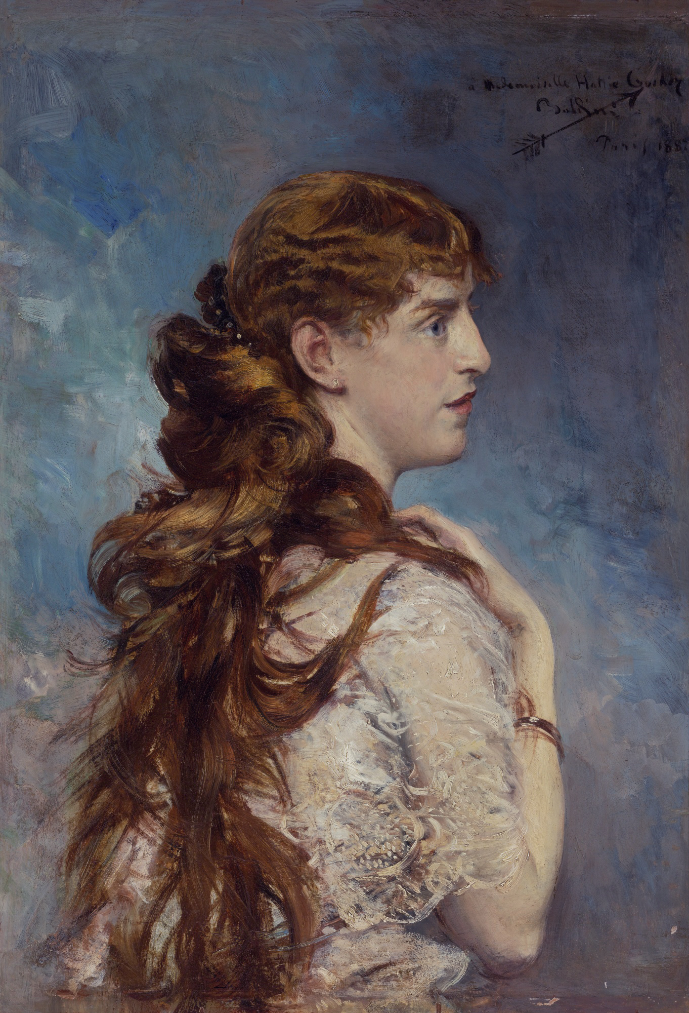 Harriet Valentine Crocker Alexander oil on panel 75.5 x 52 cm signed t.r.: Mademoiselle Hattie Crocker/ Boldini/ Paris 1887